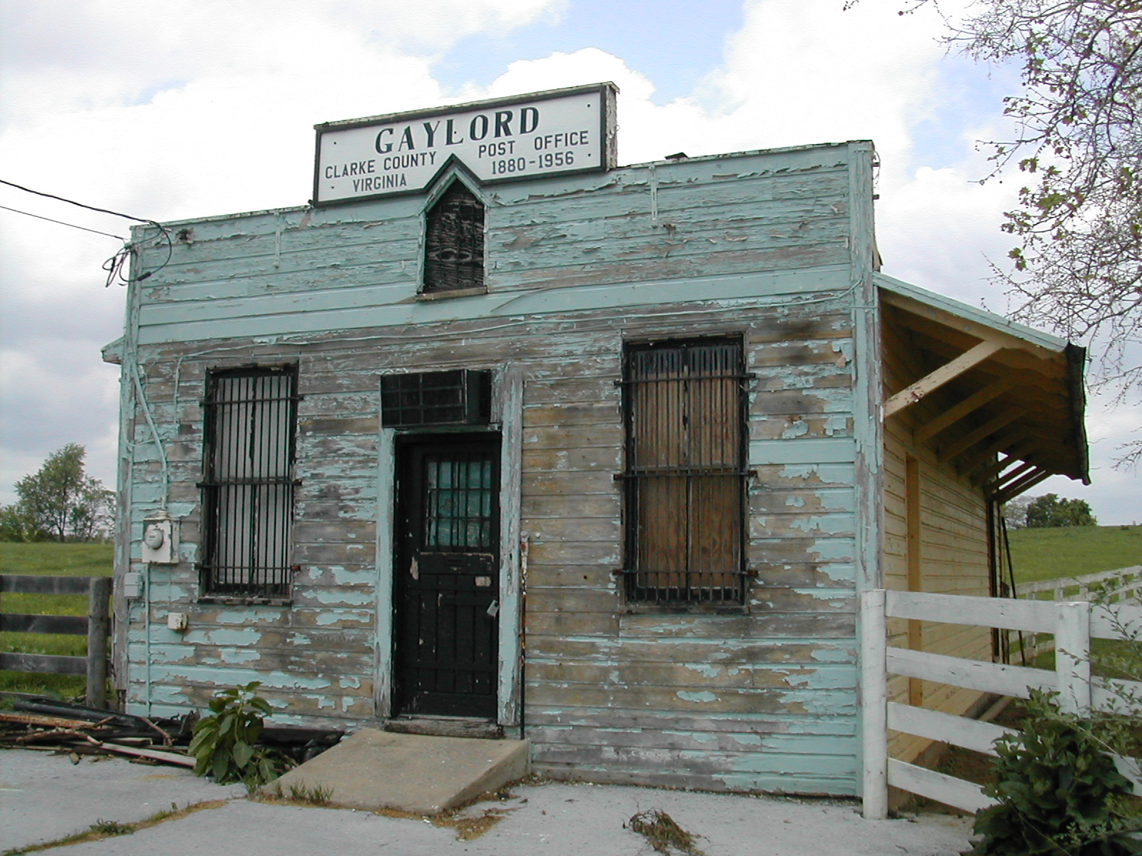 Personal picture of Gaylord VA post office for SVRR documentation. All rights released, public domain.